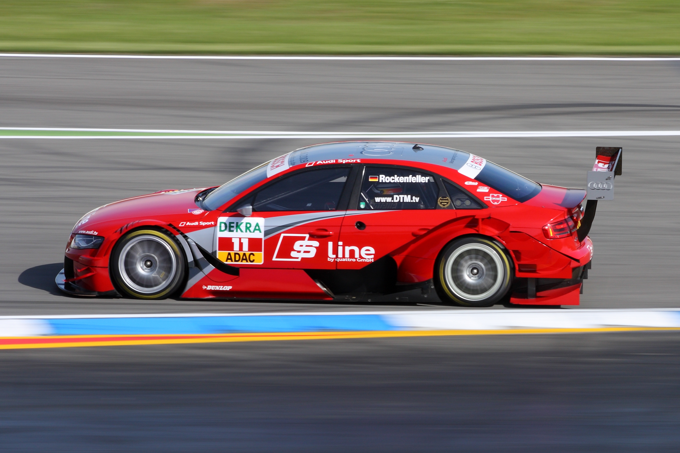 DTM Audi A4, Mike Rockenfeller (driver)